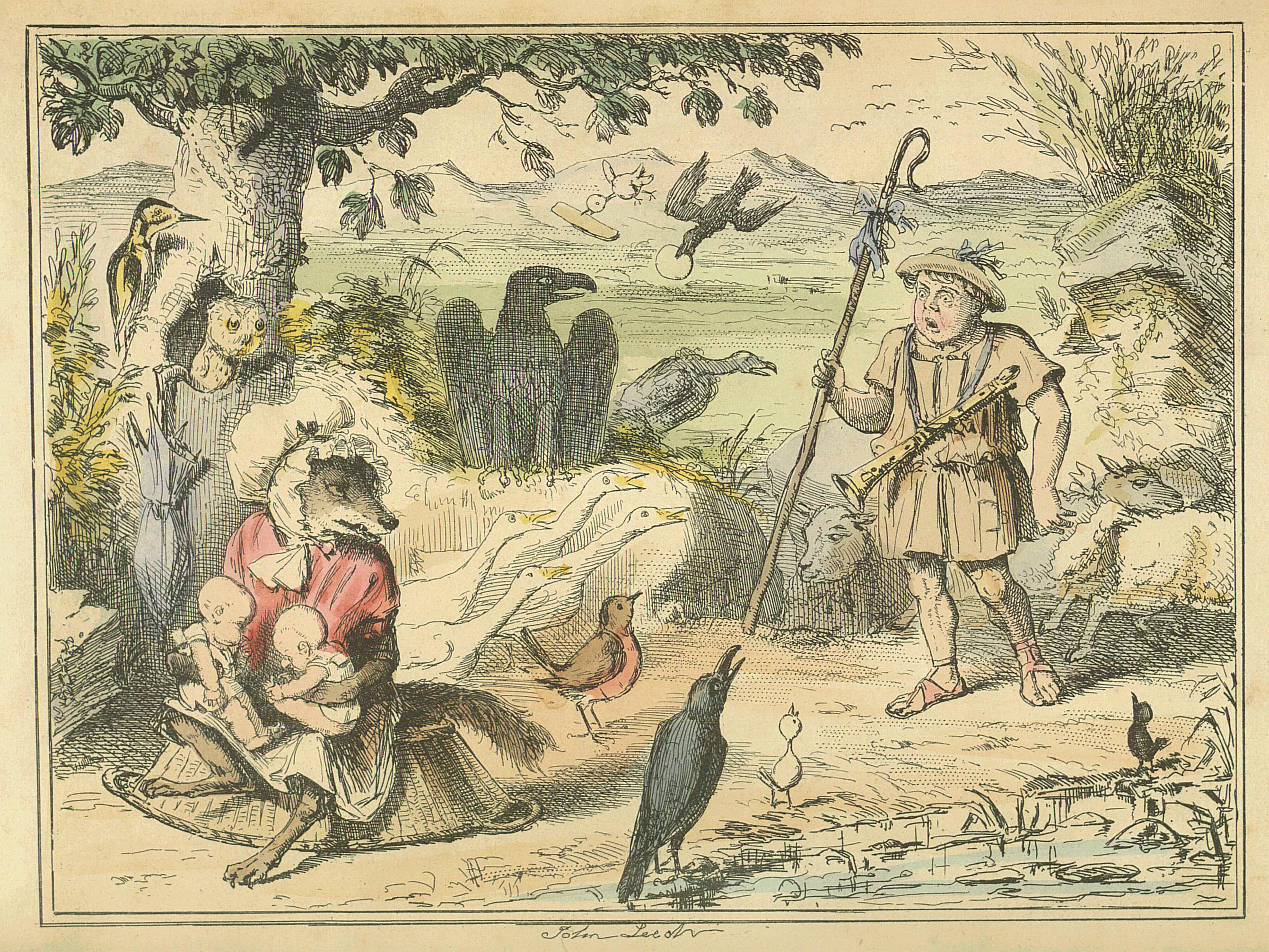 Image by John Leech, from: The Comic History of Rome by Gilbert Abbott A Beckett. Bradbury, Evans & Co, London, 1850s Romulus and Remus discovered by a gentle shepherd